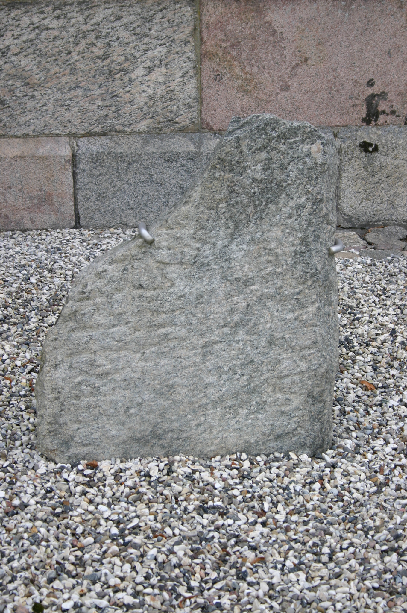 Fragment of runestone (Skjern 1) at Skjern Church, Mid Jutland, Denmark. Fragment af runesten (Skjern 1) ved Skjern Kirke mellem Randers og Viborg